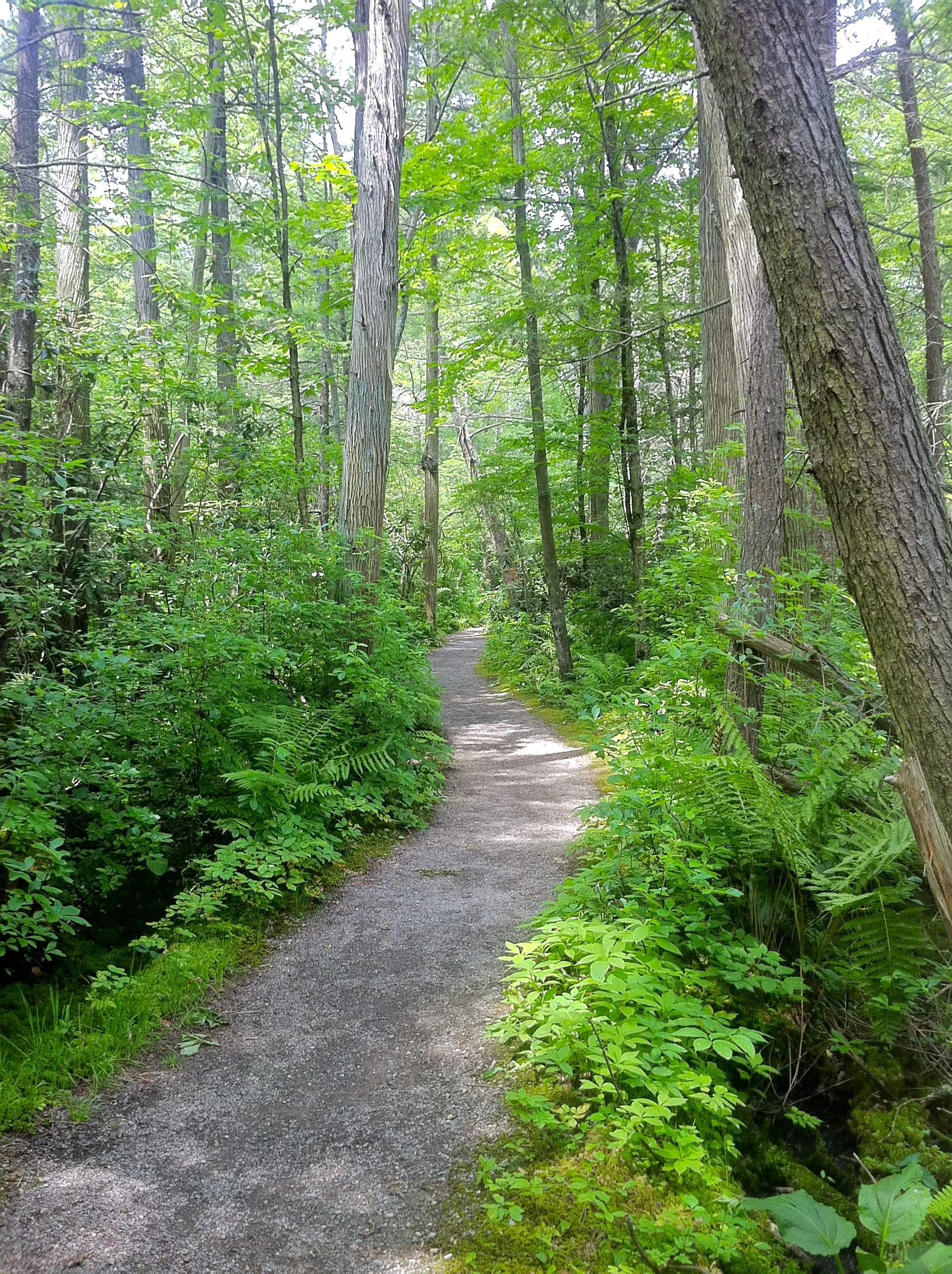 Nehantic Trail - Rhododendron Sanctuary Trail - Beginning.